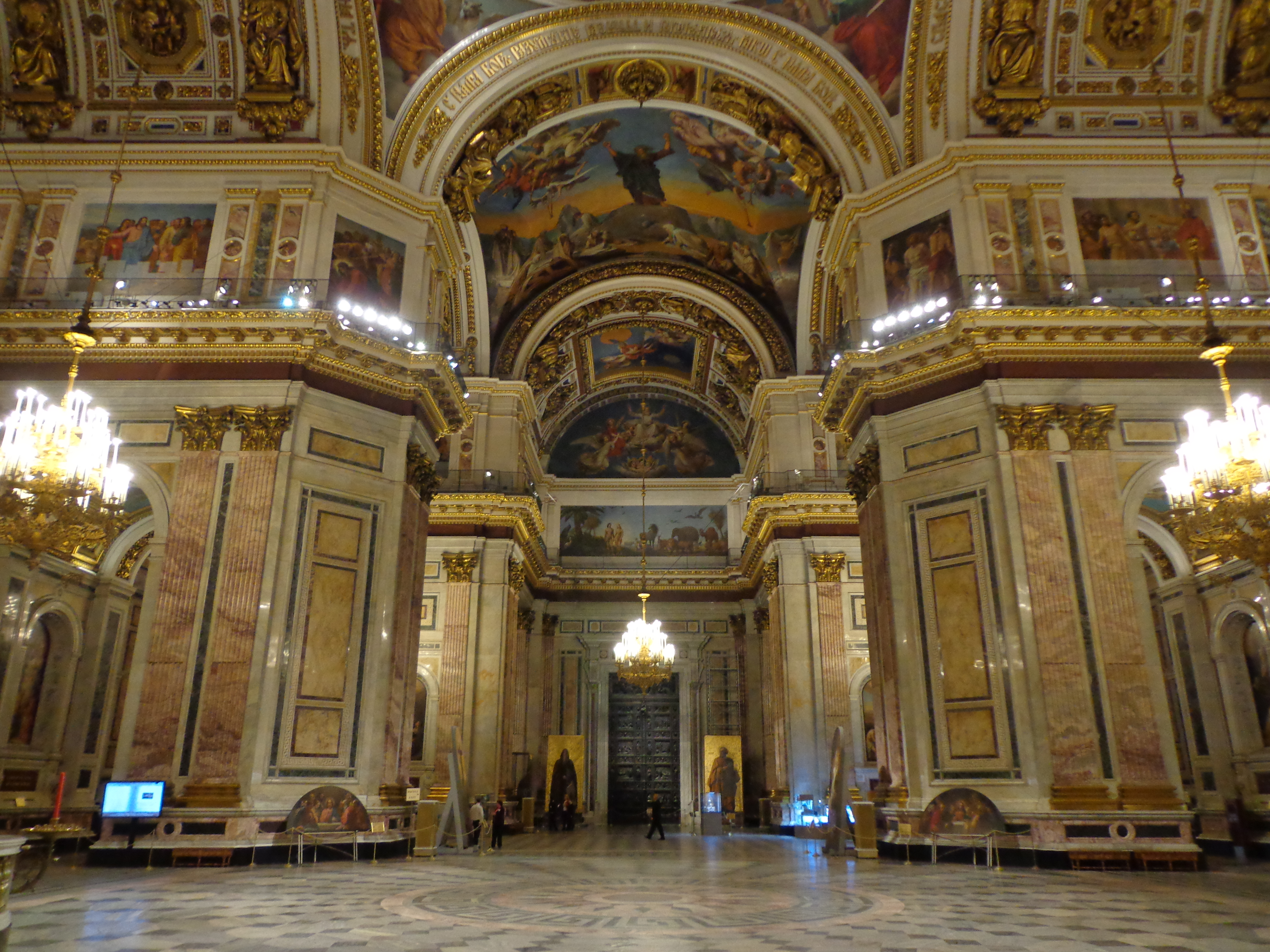 Interior of Saint Isaac's Cathedral, Saint-Petersburg